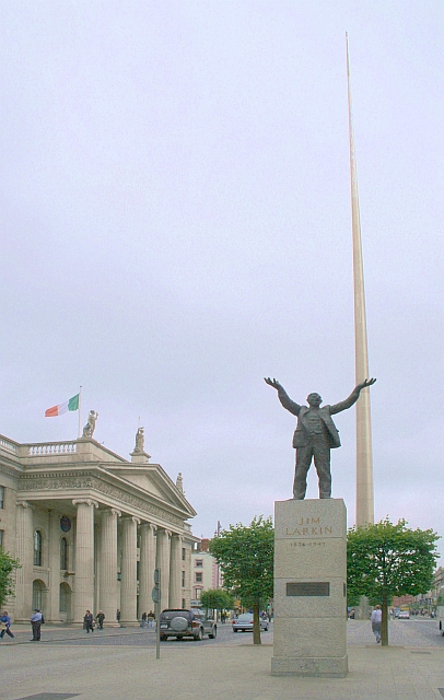 James Larkin Statue and The Monument of Light. The Monument of Light is 120m of stainless steel. The Larkin statue was erected in 1981. James Larkin was leader of the general strike in 1913. The building on the left is the General Post Office which was seized on Easter Monday, 1916 by members of the Irish Volunteers and Irish Citizen Army.